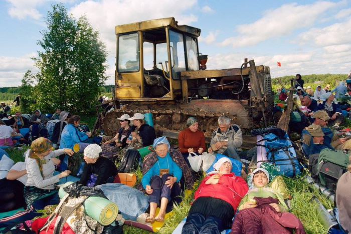 Photo by Nikita Shokhov from the series Sacred Procession. 2012